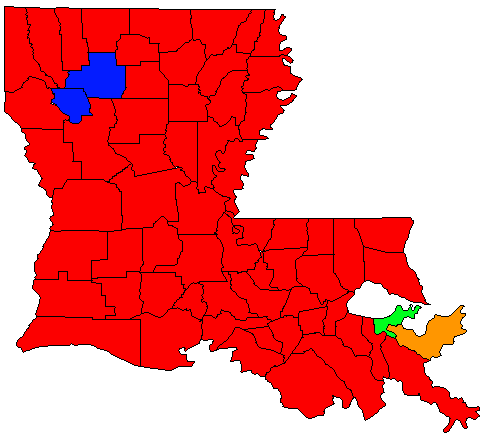 October 20, 2007 Louisiana Gubernatorial Election results by parish. [1] Red – Parishes in which candidate Bobby Jindal obtained a plurality of majority of the votes cast. Orange – Parishes in which candidate Walter Boasso obtained a plurality of majority of the votes cast. Light Green – Parishes in which candidate John Georges obtained a plurality of majority of the votes cast. Blue – Parishes in which candidate Foster Campbell obtained a plurality of majority of the votes cast.